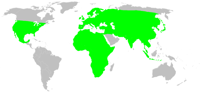 Atypidae habitat distribution, drawn after Platnick: World Spider Catalog 7.0. This is not a precise rendering of the distribution! If you have better information, please replace this map, or send me the info, so i will redraw it.